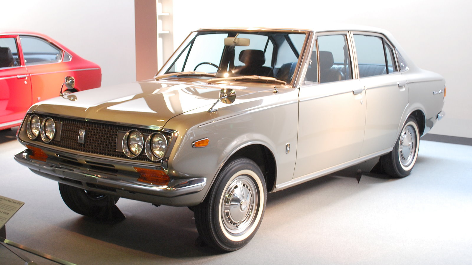 1st generation Toypet Corona Mark II Model RT62